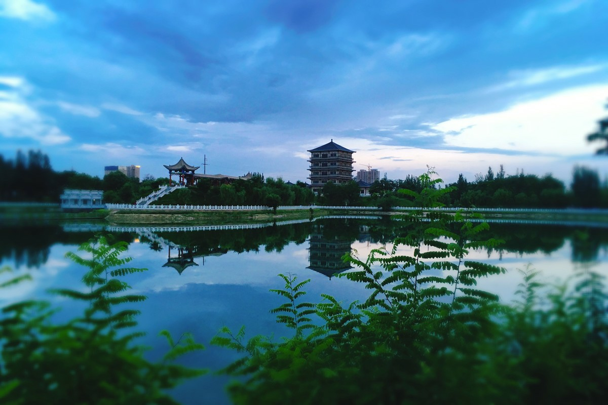 Jinling park of baiyin